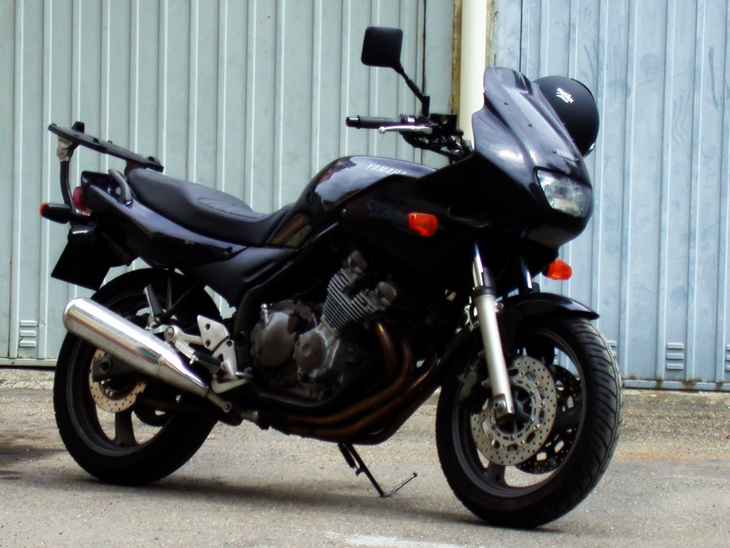 This is "Diversa". Just fixed her after a couple of years spent buried in a garage. Now she's back, and ready to rock! Yamaha Diversion XJ600